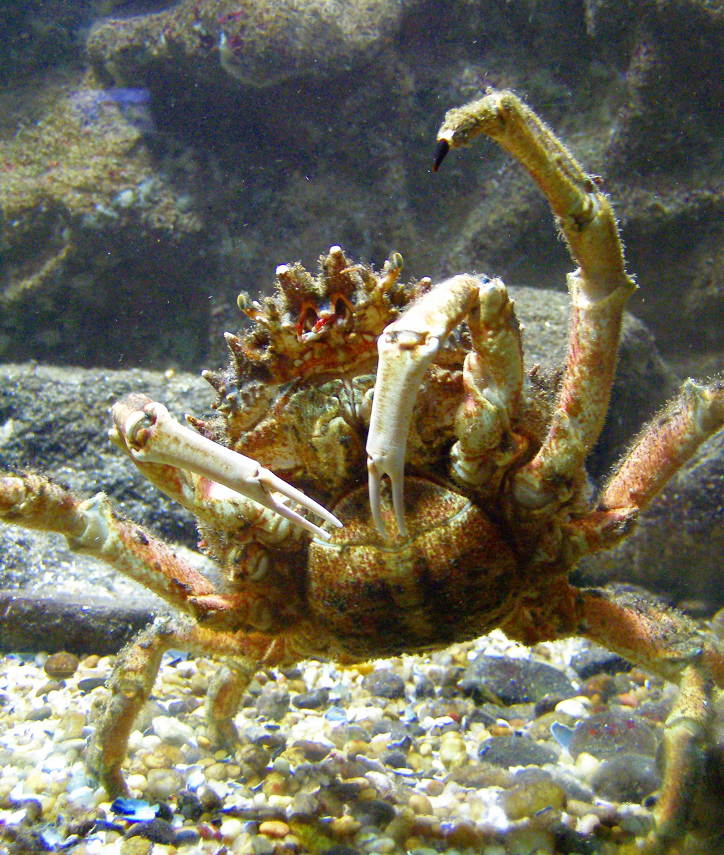 Spiny Spider Crab. Estação Litoral da Aguda, Vila Nova de Gaia, Portugal.